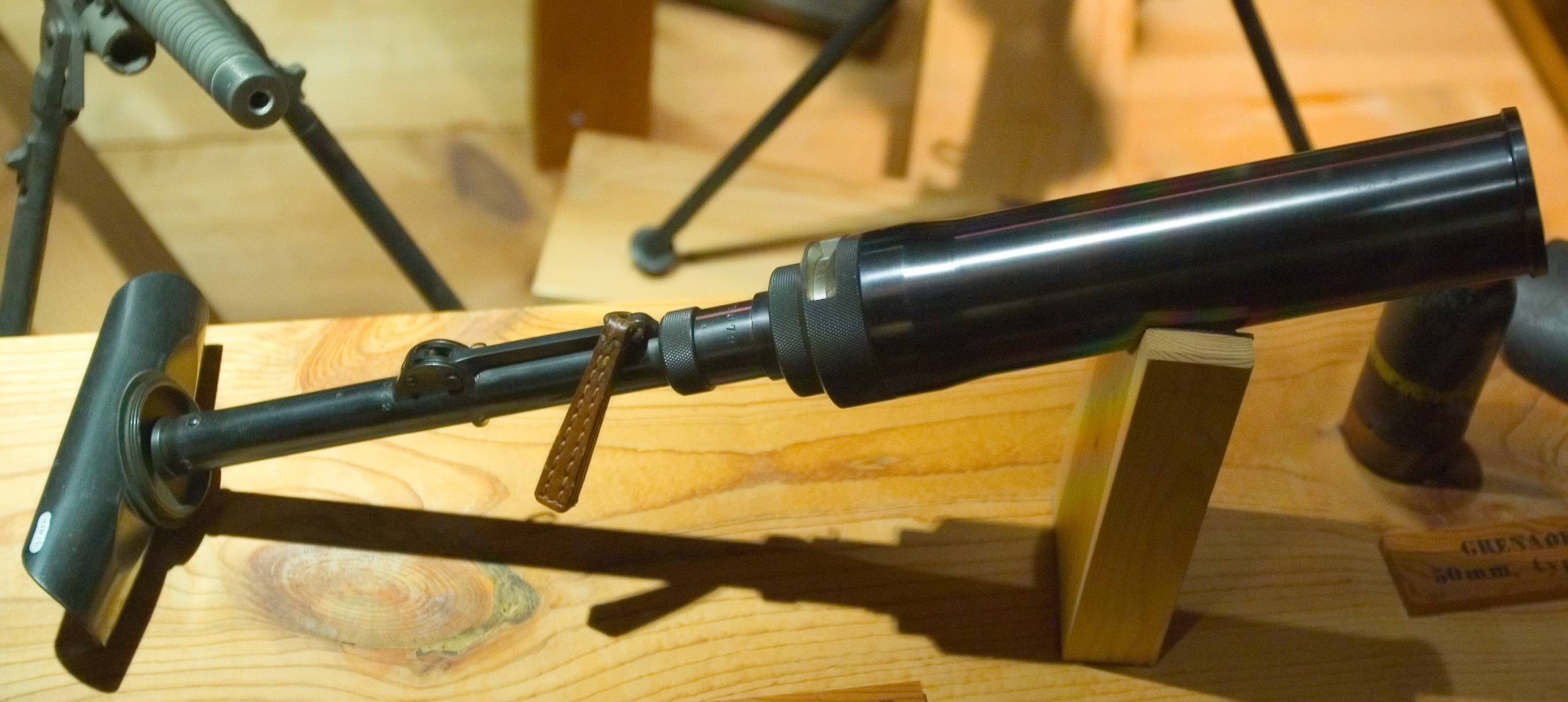 A Japanese 50mm Type 10 (1921) Grenade Discharger at the Battery Randolf US Army Museum in Honolulu Hawiai